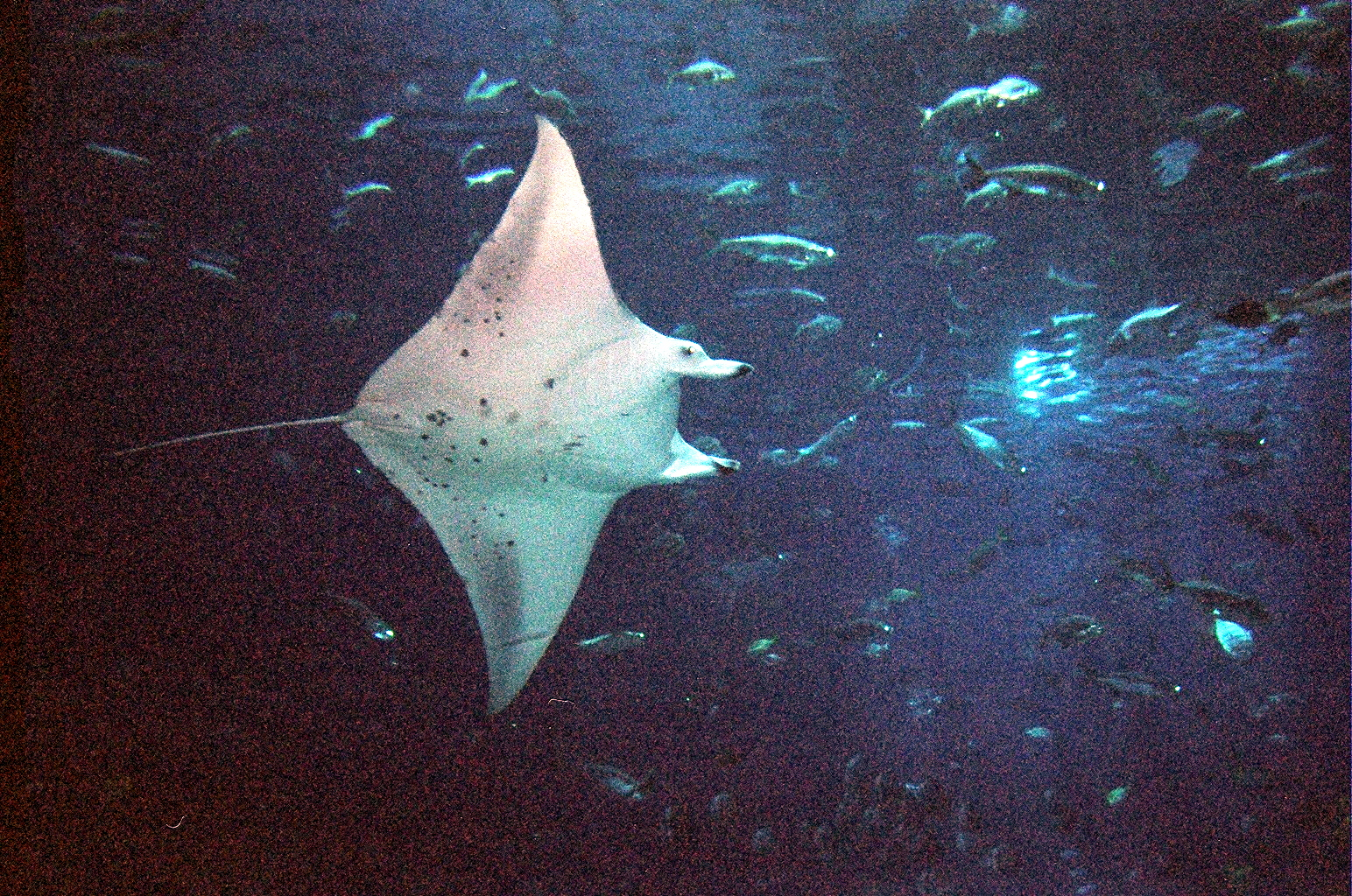 Nandi the manta ray at the Georgia Aquarium.